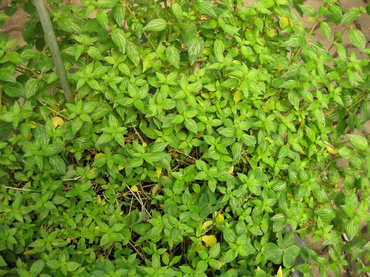 Photographed at the Queen Sirikit Botanic Garden (Chiang Mai Province, Thailand) in March